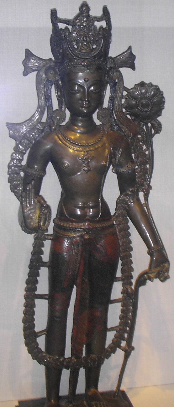 Tibetan Bodhisattva of Compassion (Avalokiteshvara), statue made of brass alloy with copper and tin inlay, colored wax, traces of gilding, and applied pigment. Made in West Tibet, Ngari, from the Guge Kingdom, dated between 1000 and 1050 AD. This sculpture was made shortly after the Buddhist leader Yeshe Ö (947-1024 AD) had invited scholars and artists from Central Asian Kashmir to revitalize Buddhism in the Guge Kingdom of Western Tibet. From the Freer and Sackler Galleries of Washington D.C.